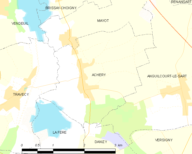 Map of French commune: Achery Map commune FR insee code 02002.png